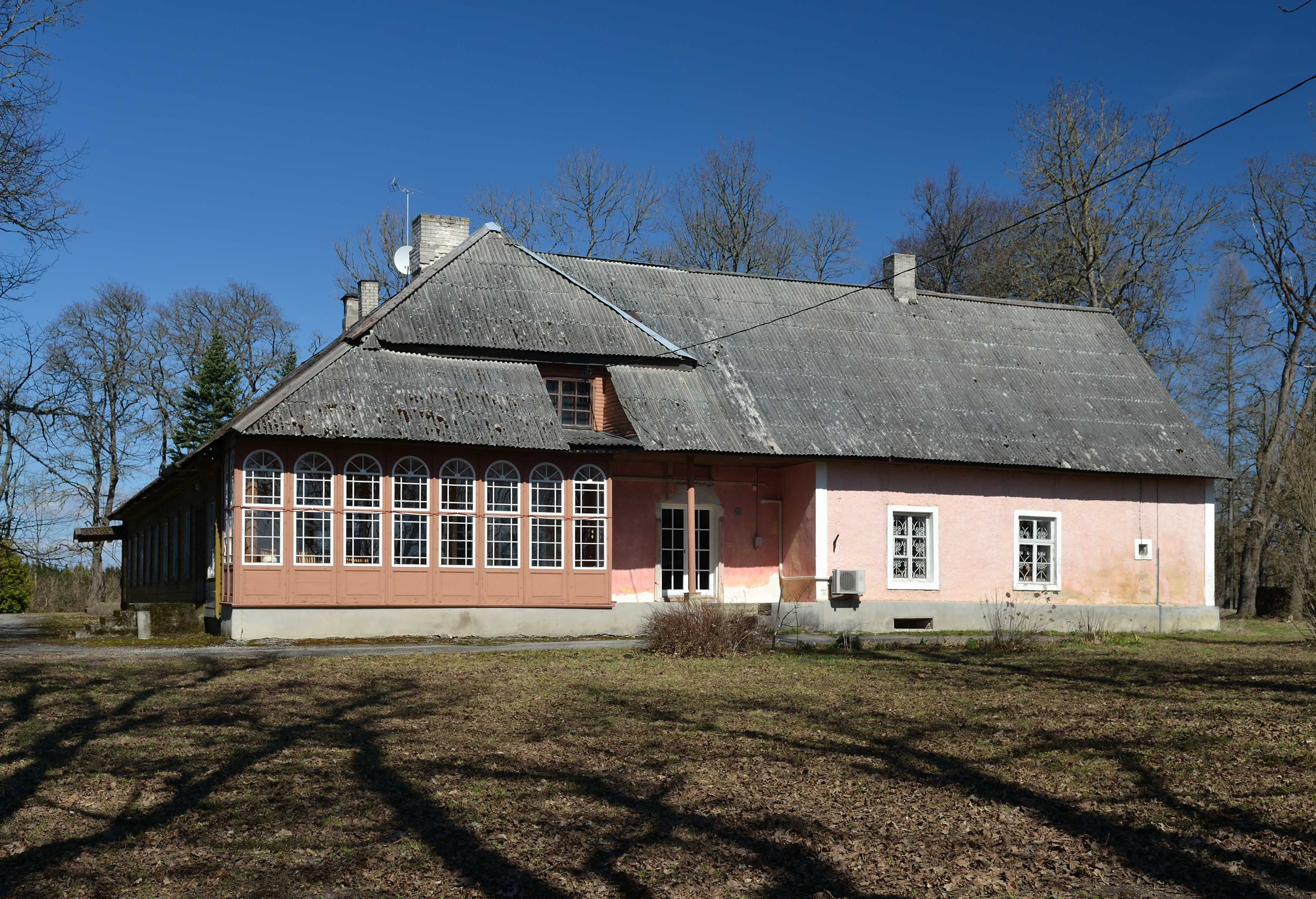 Vao manor (Koeru) main building